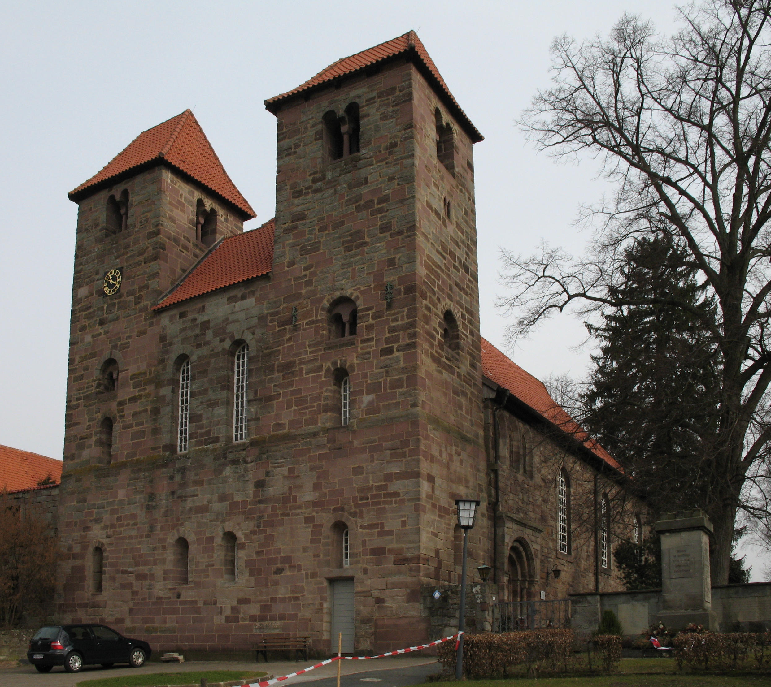 Church in Gleichen-Reinhausen in Lower Saxony, Germany